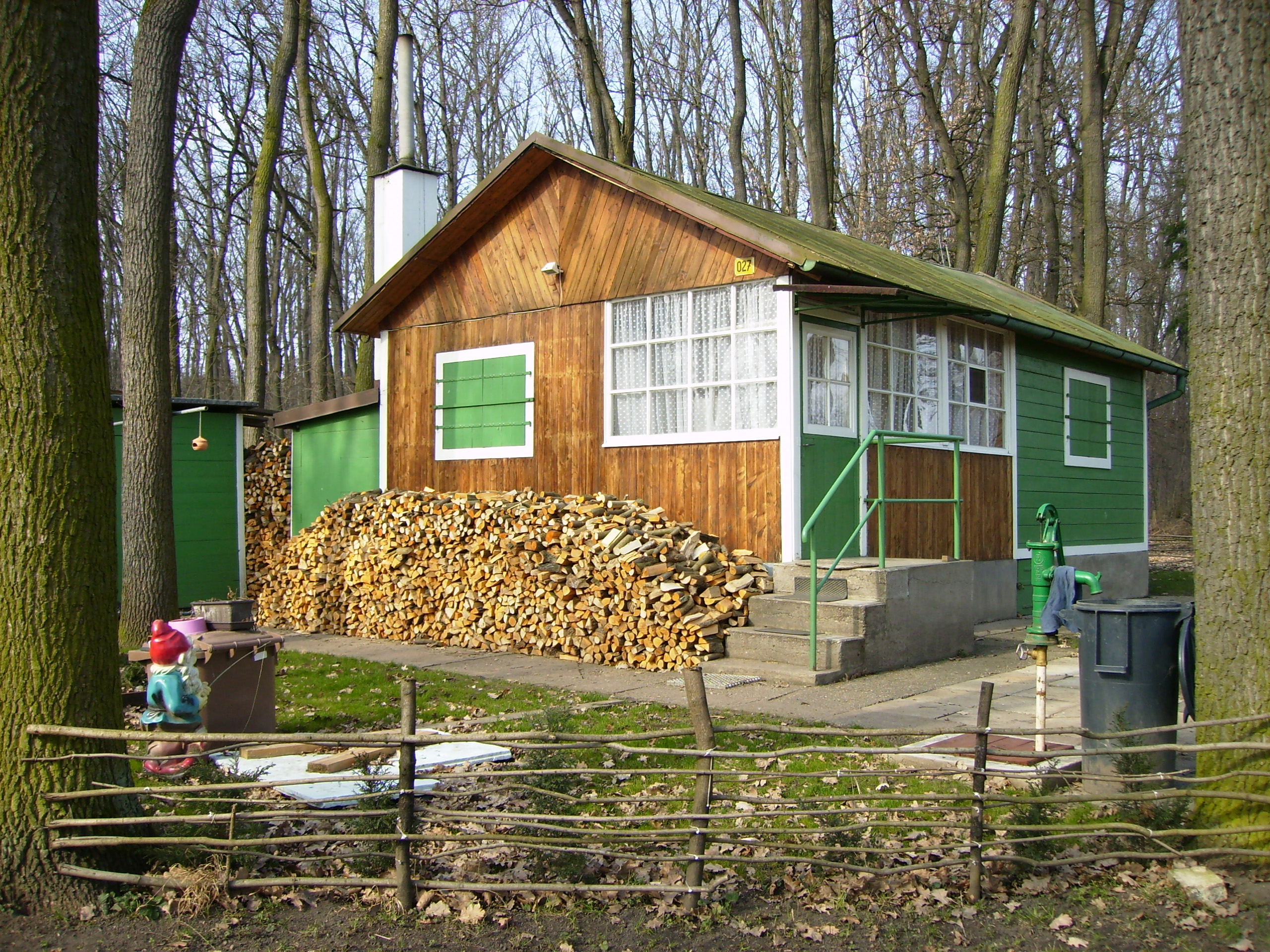 Typical Czech Allotment with Leisure Garden